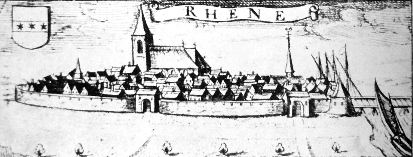 Sight of the City of Rheine (Germany), drawing in a map, about 1600